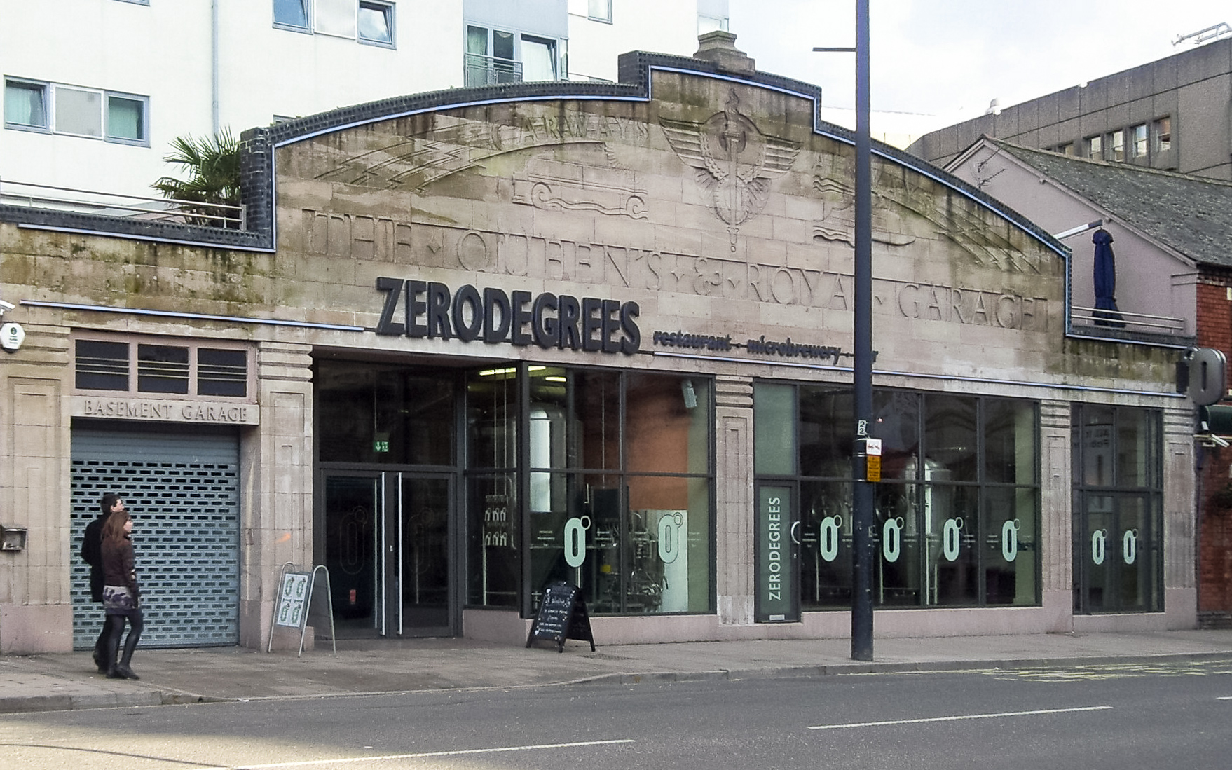 Zero Degrees restaurant and microbrewery The building was formerly a garage.